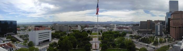 User:Ke4roh snapped these photos in May 2001 and assembled them in The GIMP, with some minor touch-ups to the sky to obscure the photo transitions a little bit.